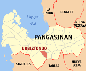 Map of Pangasinan showing the location of Urbiztondo